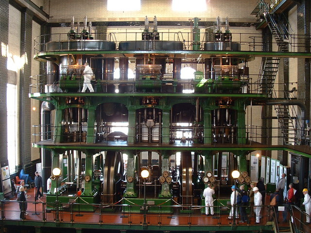 Kempton Great Engine No. 6 "in steam"Number 6 is the restored one of the two 'Great Engines' at Kempton Park, they are of the inverted vertical triple expansion type, are 62 ft tall from basement to the top of the valve casings and weigh over 800 tons. These engines are thought to be the biggest ever built in the UK and date from 1926-1929 and were the last working survivors when they stopped in 1980.